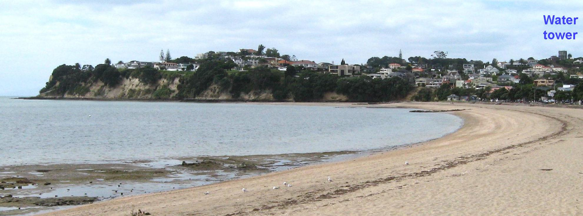 Point, headland with old water tower Self-made 2008 St Heliers, Auckland David Burgess